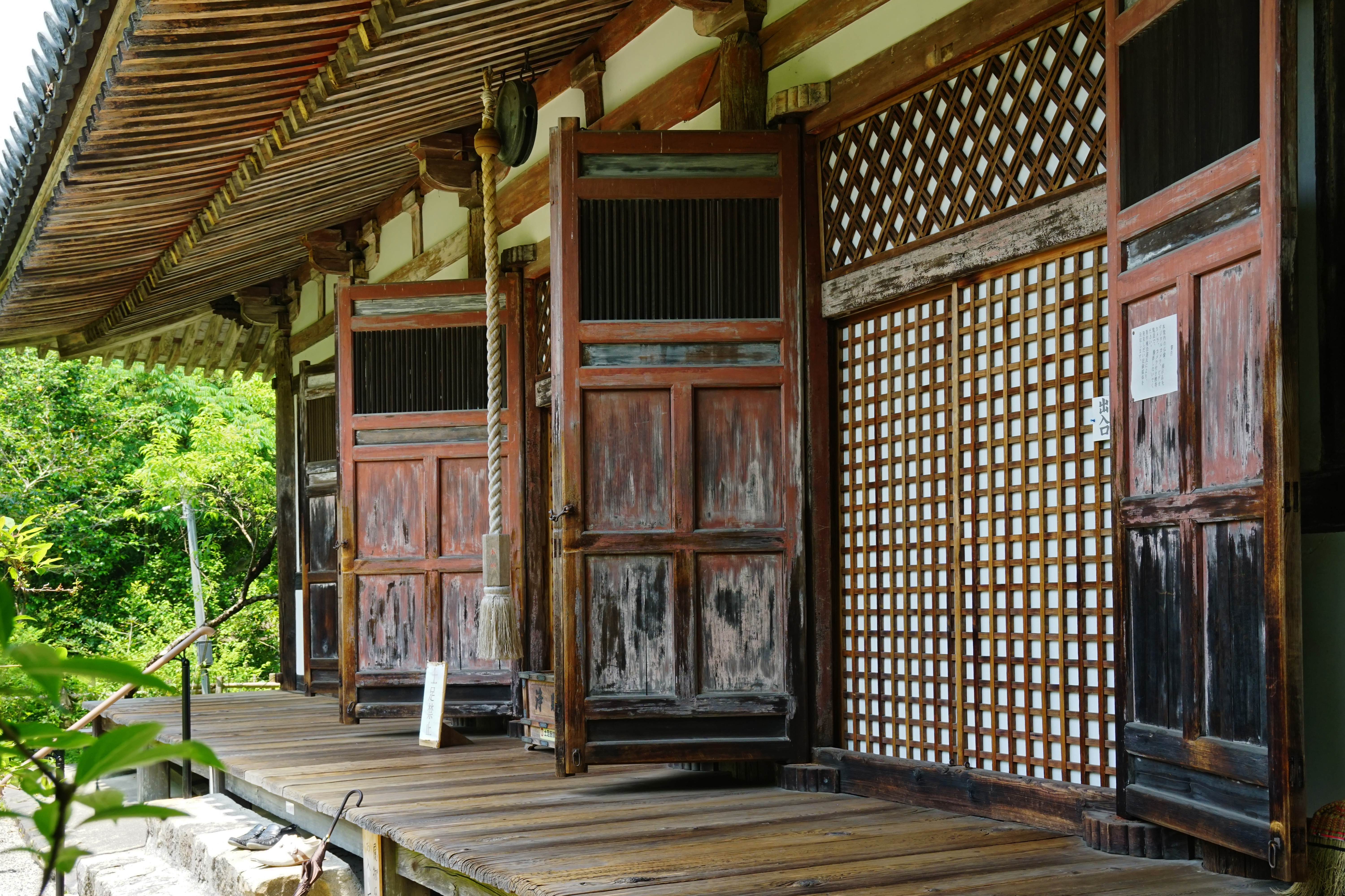 Futai-ji in Nara, Nara prefecture, Japan.